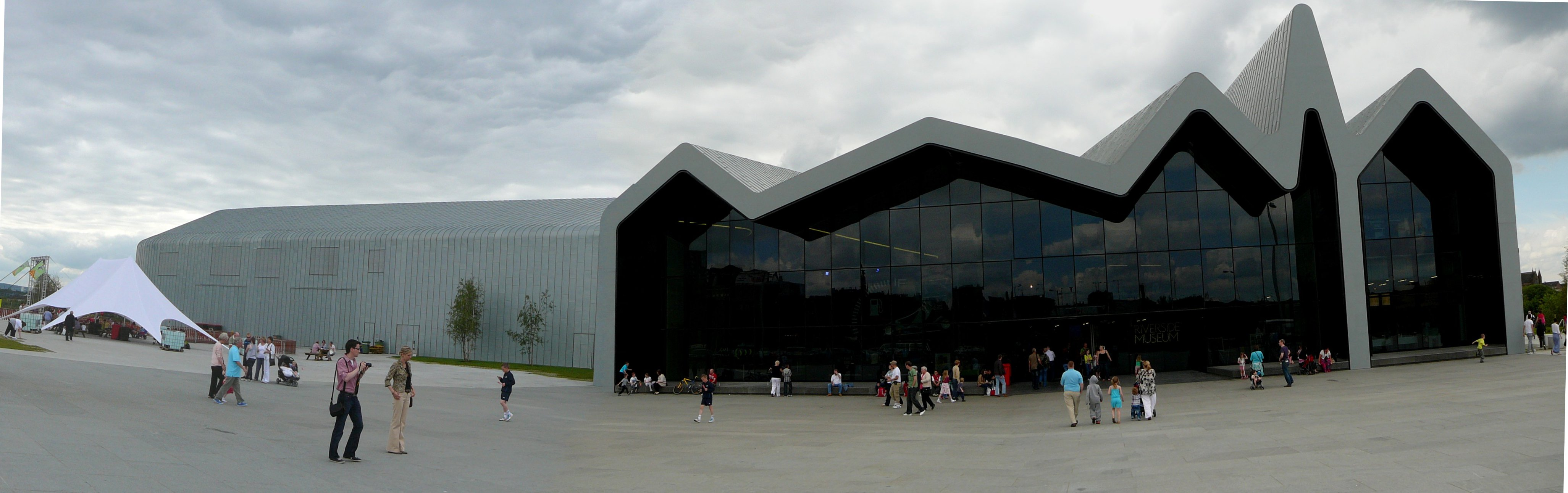 The Glasgow Riverside Museum from the front with the main entrance to the right.